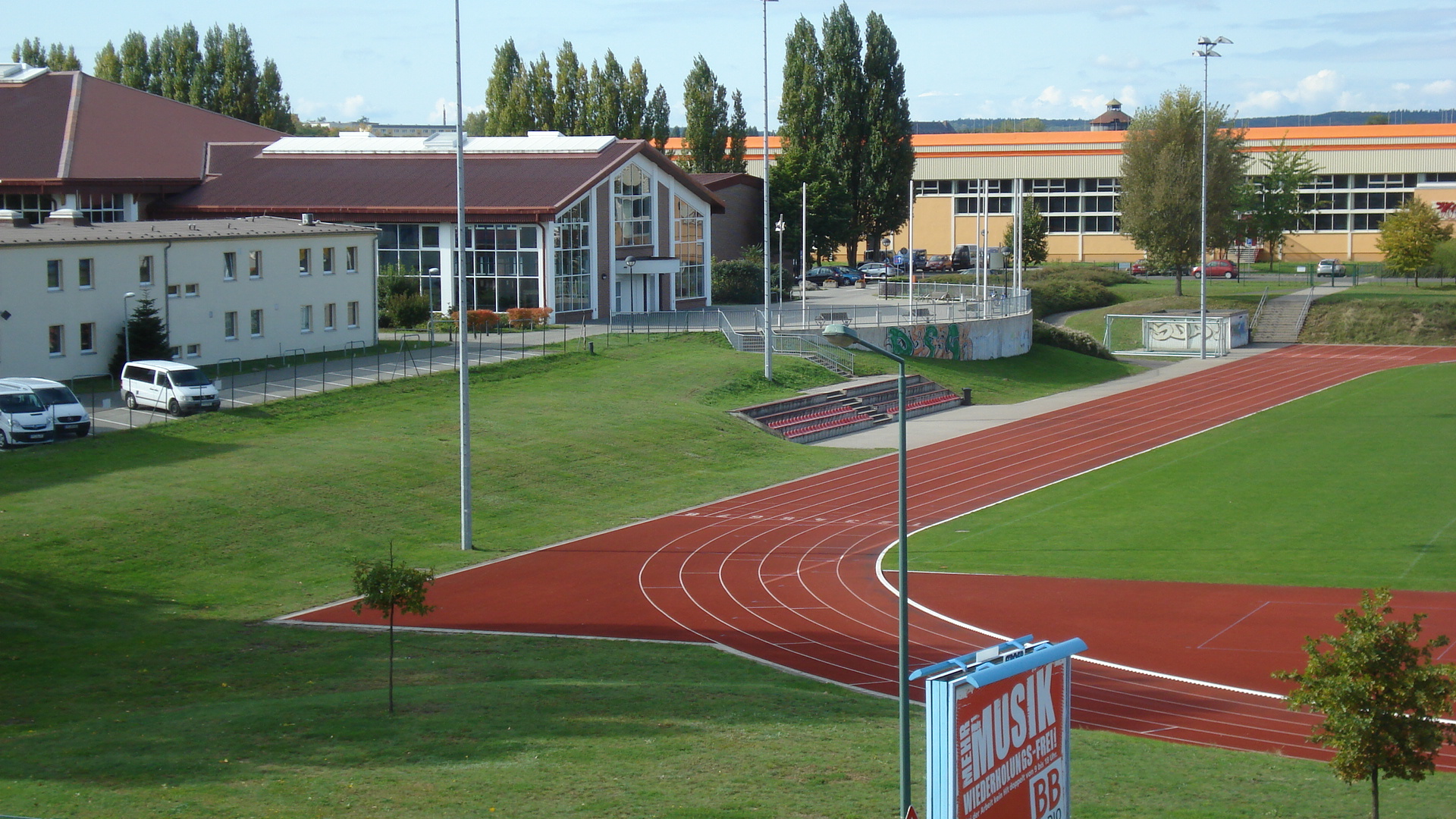 Sport Centre in Frankfurt (Oder) with sports ground, Brandenburg, Germany, Area